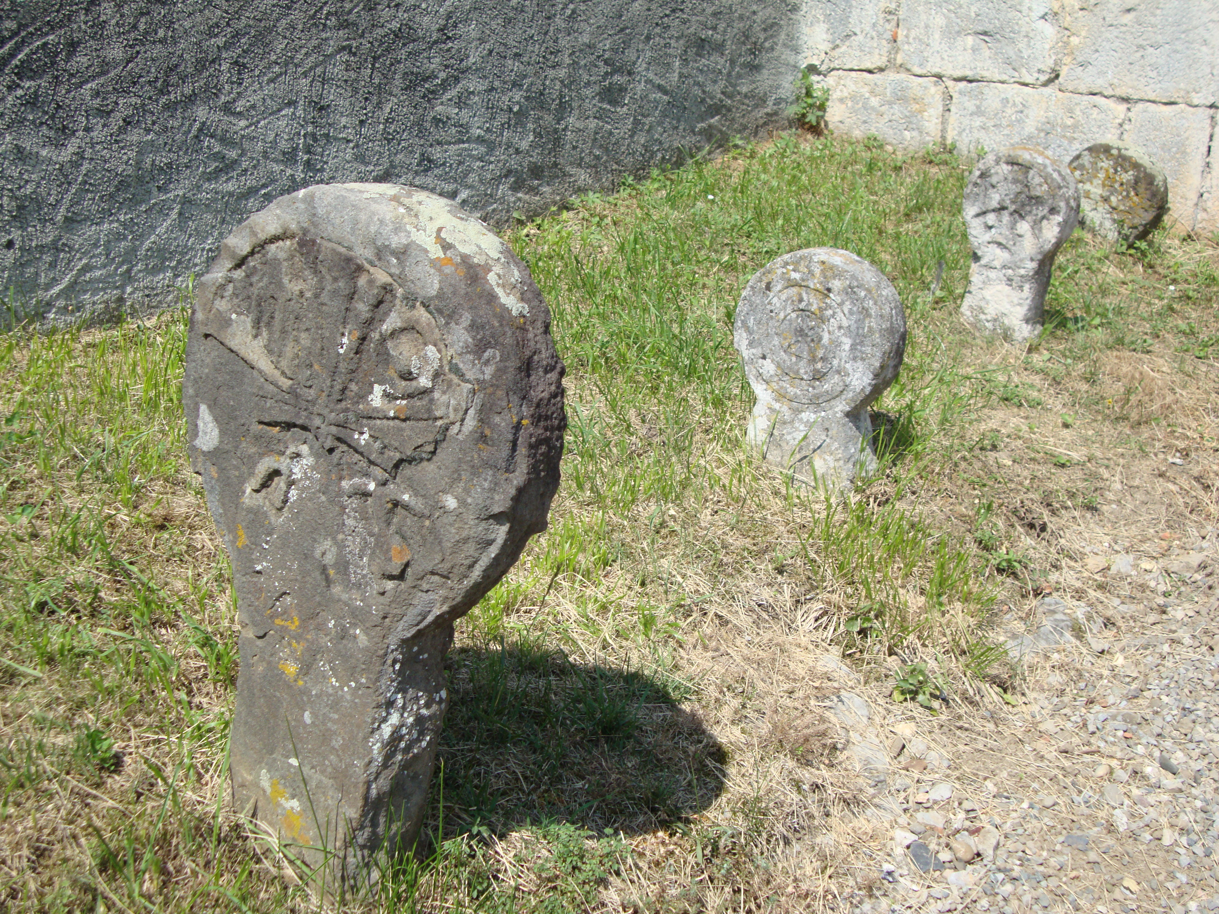 Sunhar (Lichans-Sunhar, Pyr-Atl, Fr) basque steles